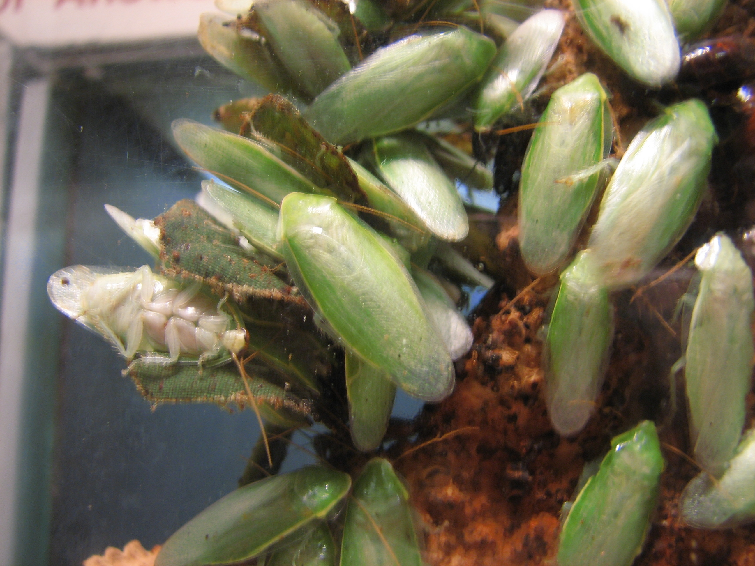 Green-leaf Cockroach - Panchlora nivea Cincinnati Zoo